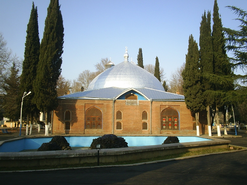 Shakh Abbas Mosque in Ganja, Azerbaijan. Picture taken by me in summer 2006.